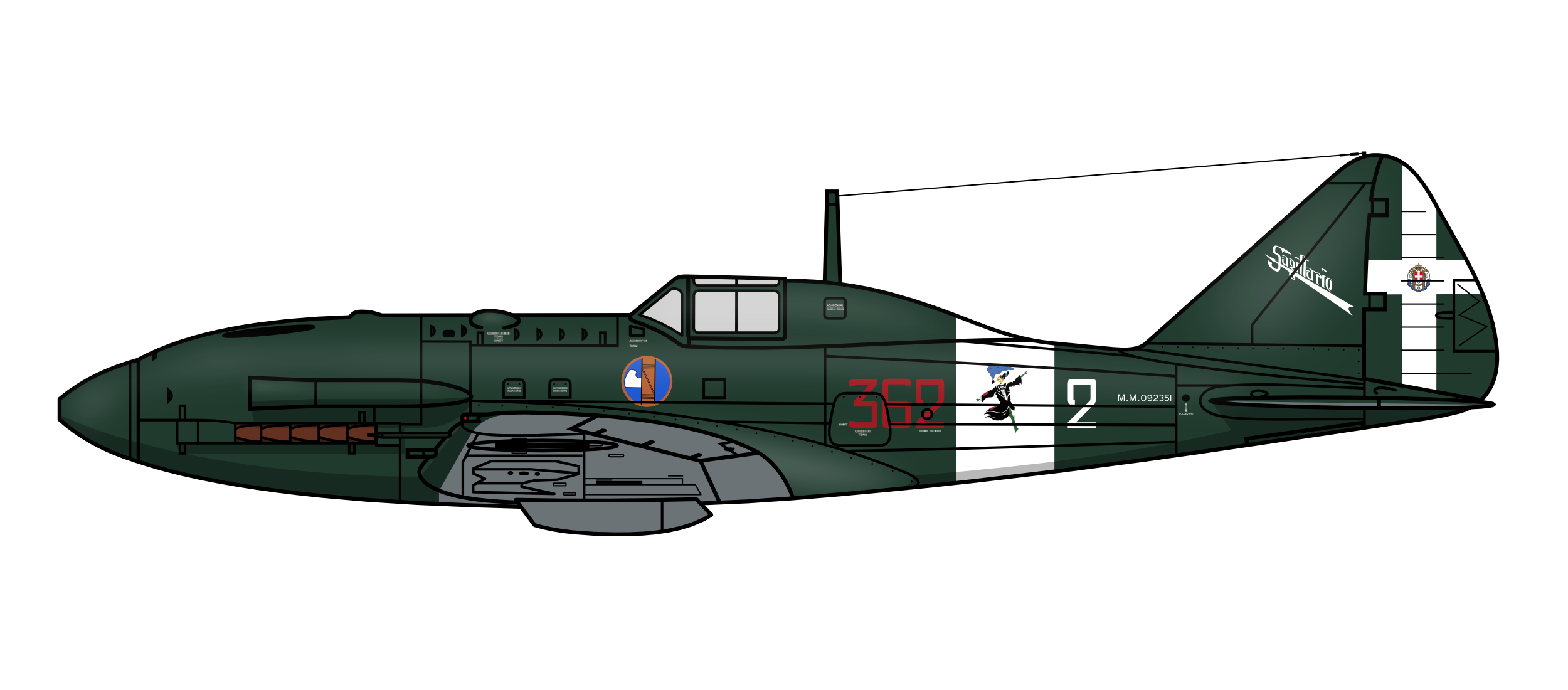 Profile of an Italian WWII Reggiane Re.2005 fighter of the 22º Gruppo Autonomo Caccia Terrestre (M.M. 092351).